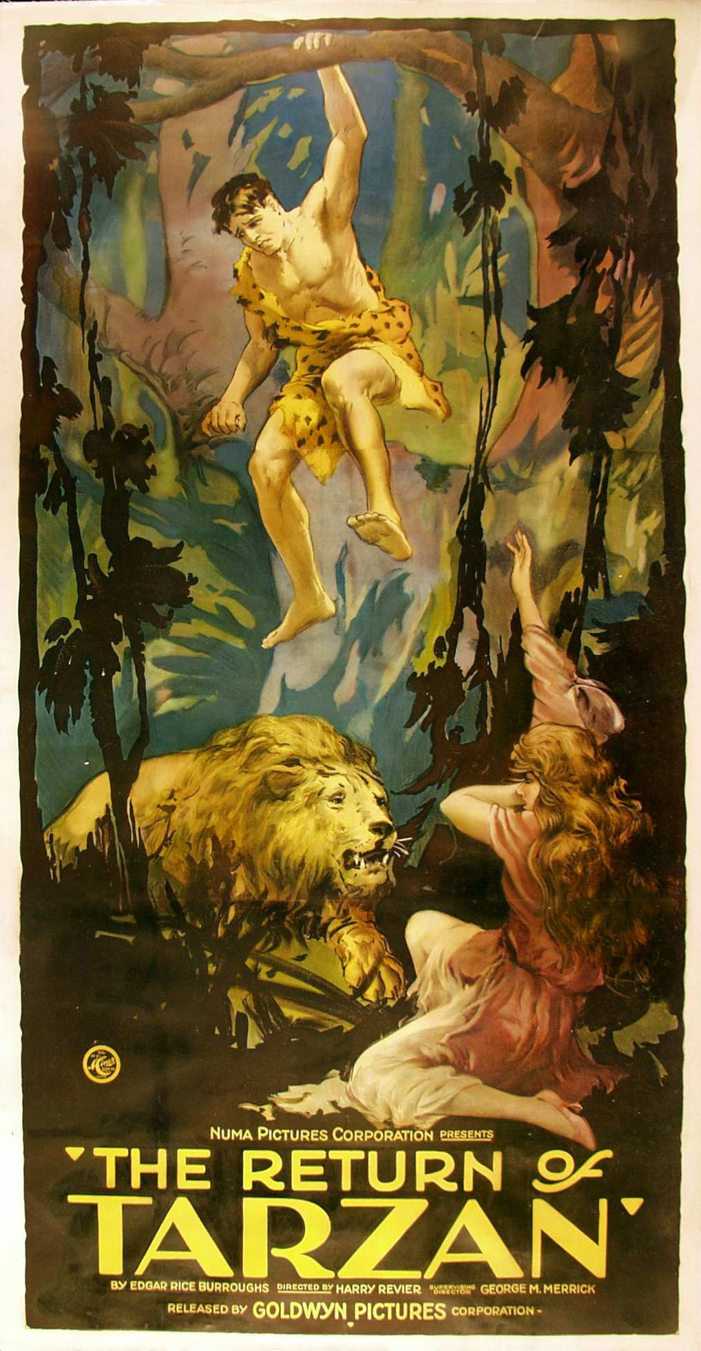 Film poster for the American film The Revenge of Tarzan (1920), originally titled The Return of Tarzan.